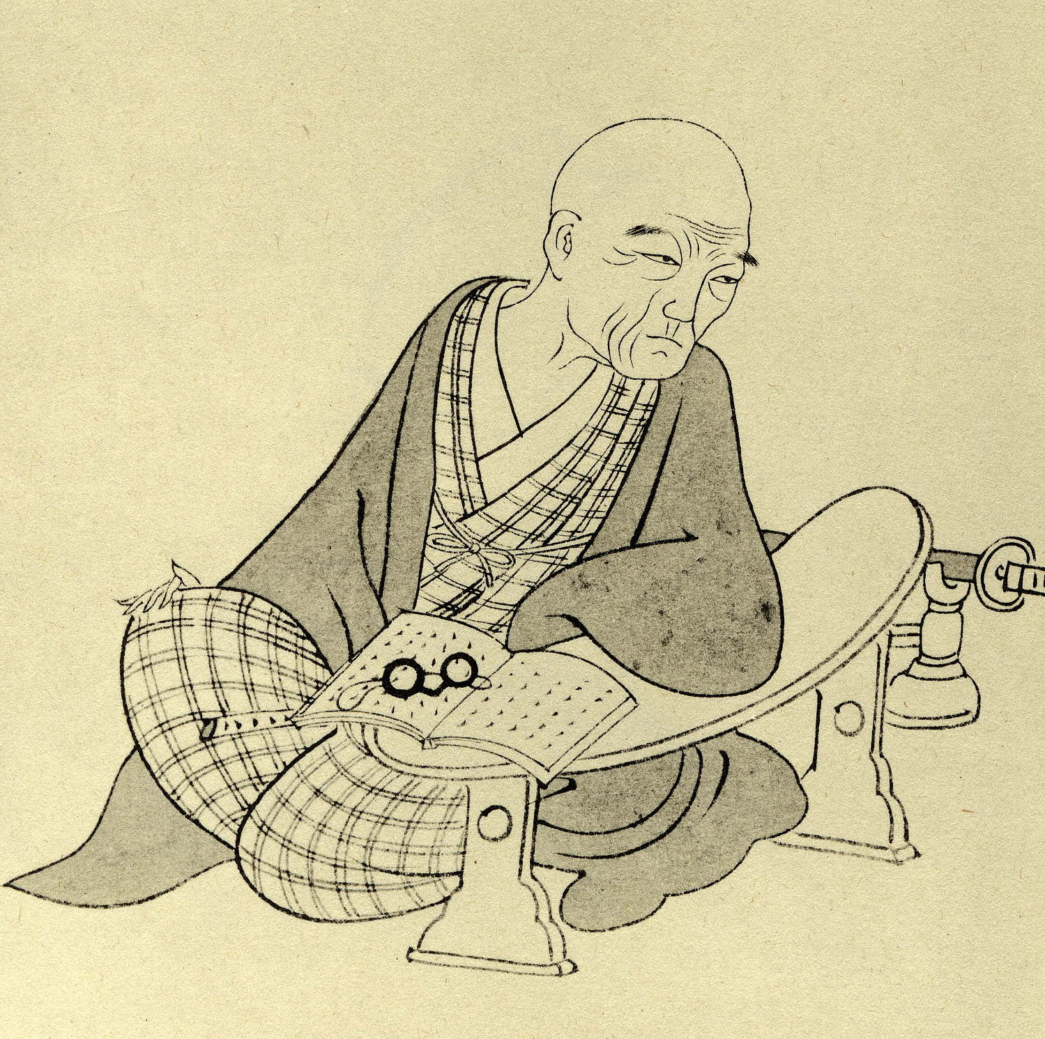 Yokoi Yayu(横井也有）was a Japanese haikai poet.